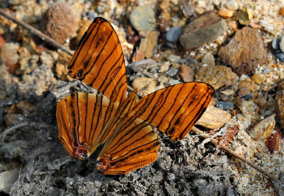 common maplet at south garo hills meghalaya